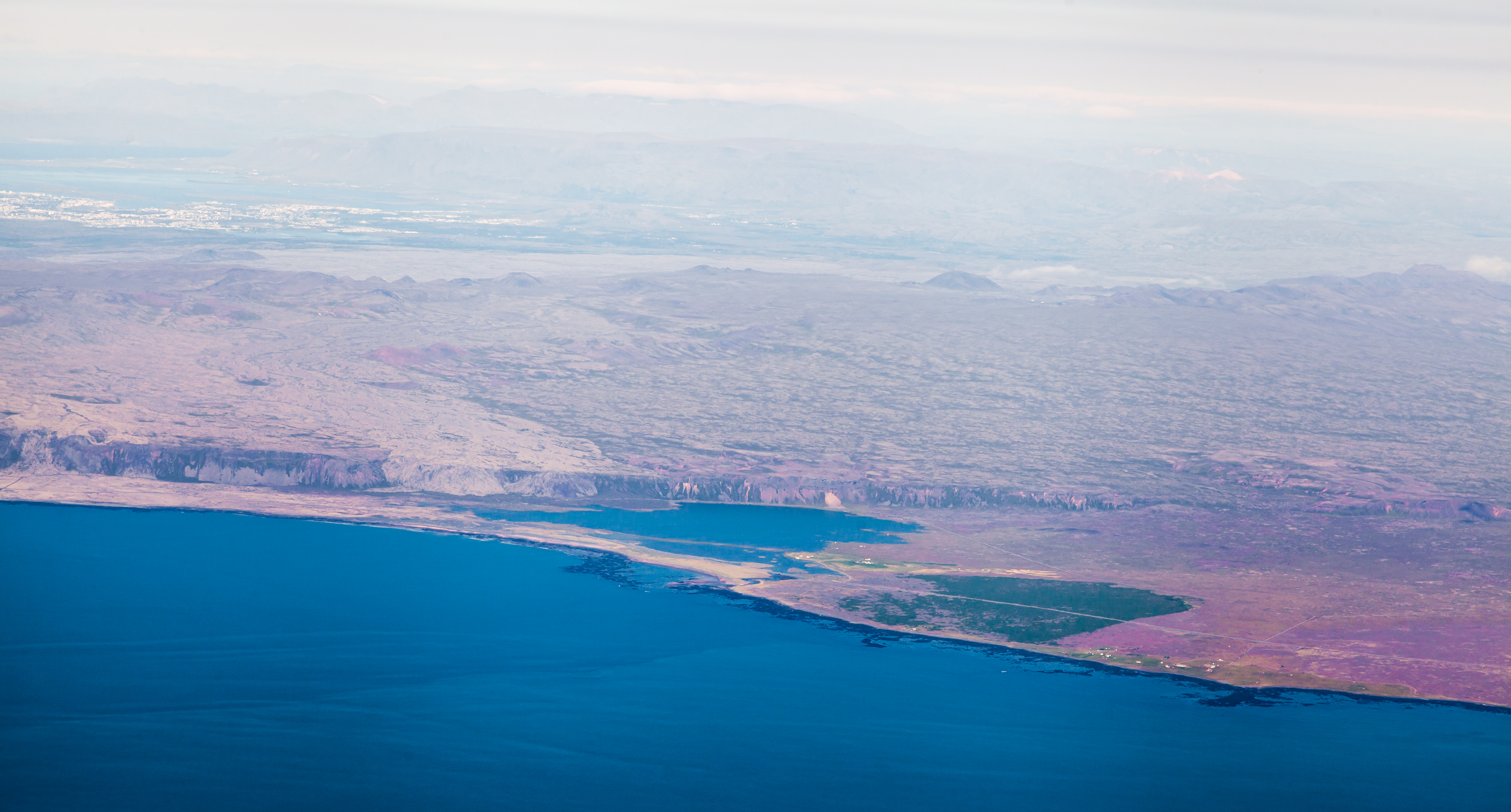 Aerial view of the Southwest of Iceland